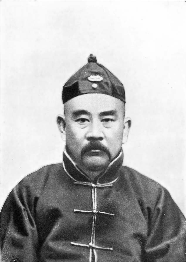 The Famous or Infamous General Chang-Hsun, the leading Reactionary in China to-day, who still commands a force of 30,000 men astride of the Pukow Railway.